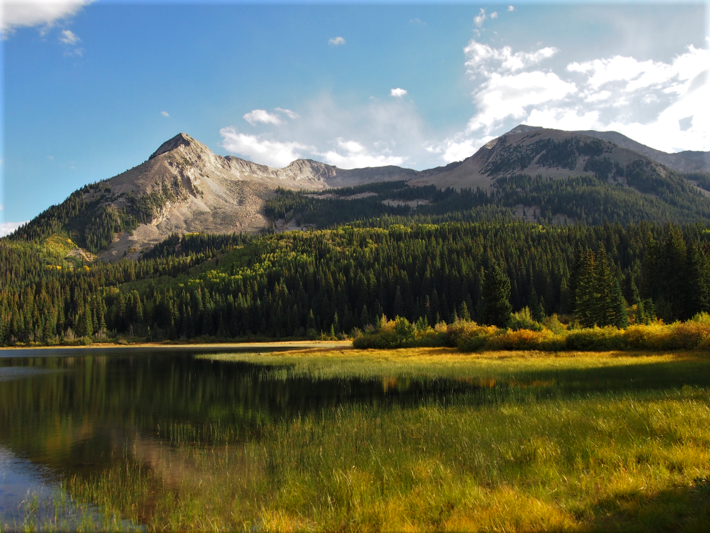 Looking southwest across Lost Lake at East (left) and West (right) Beckwith Mountains in the Gunnison National Forest, Gunnison County, Colorado.